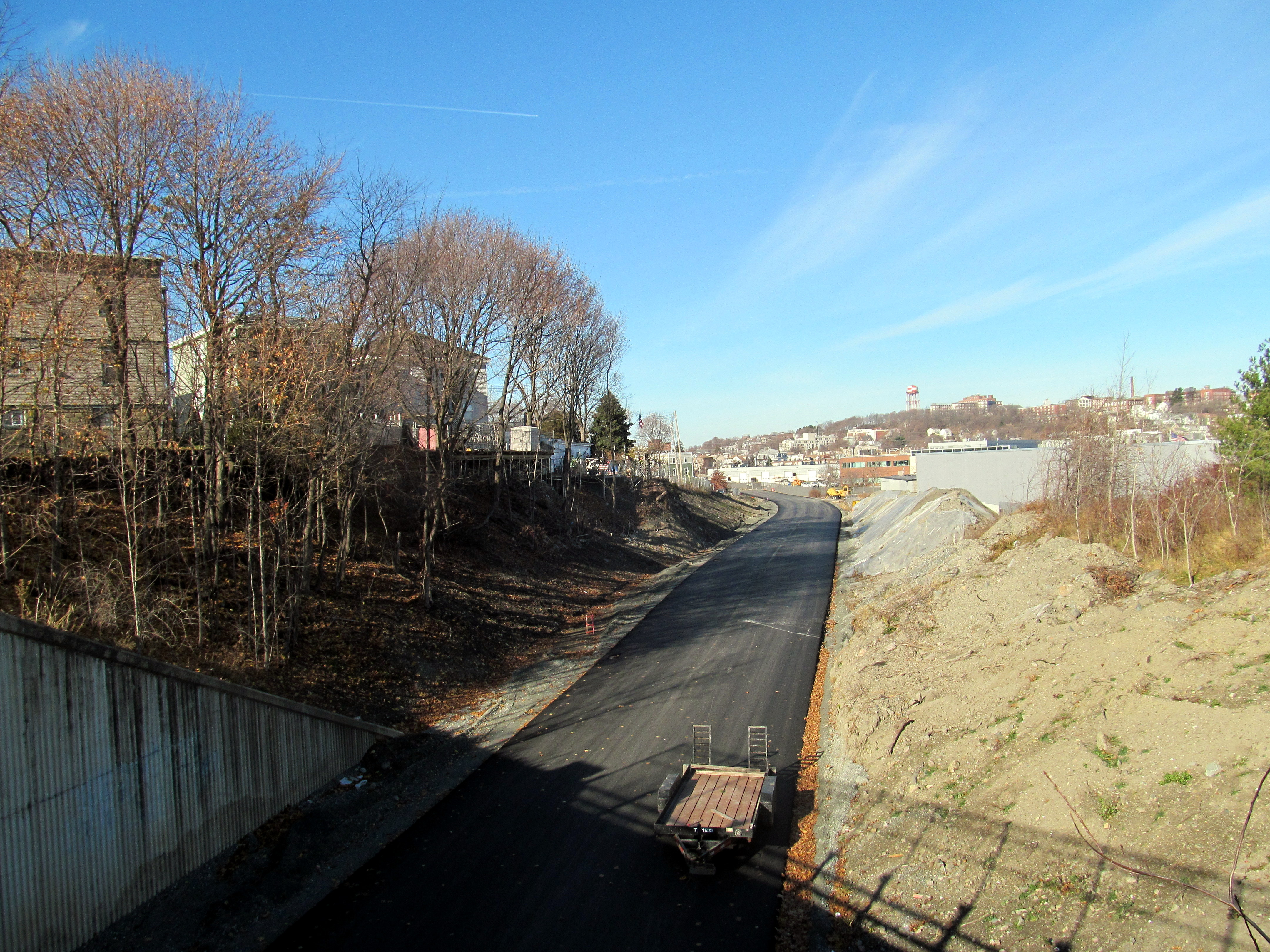 Silver Line Gateway busway under construction north of the Bellingham Street bridge in December 2015